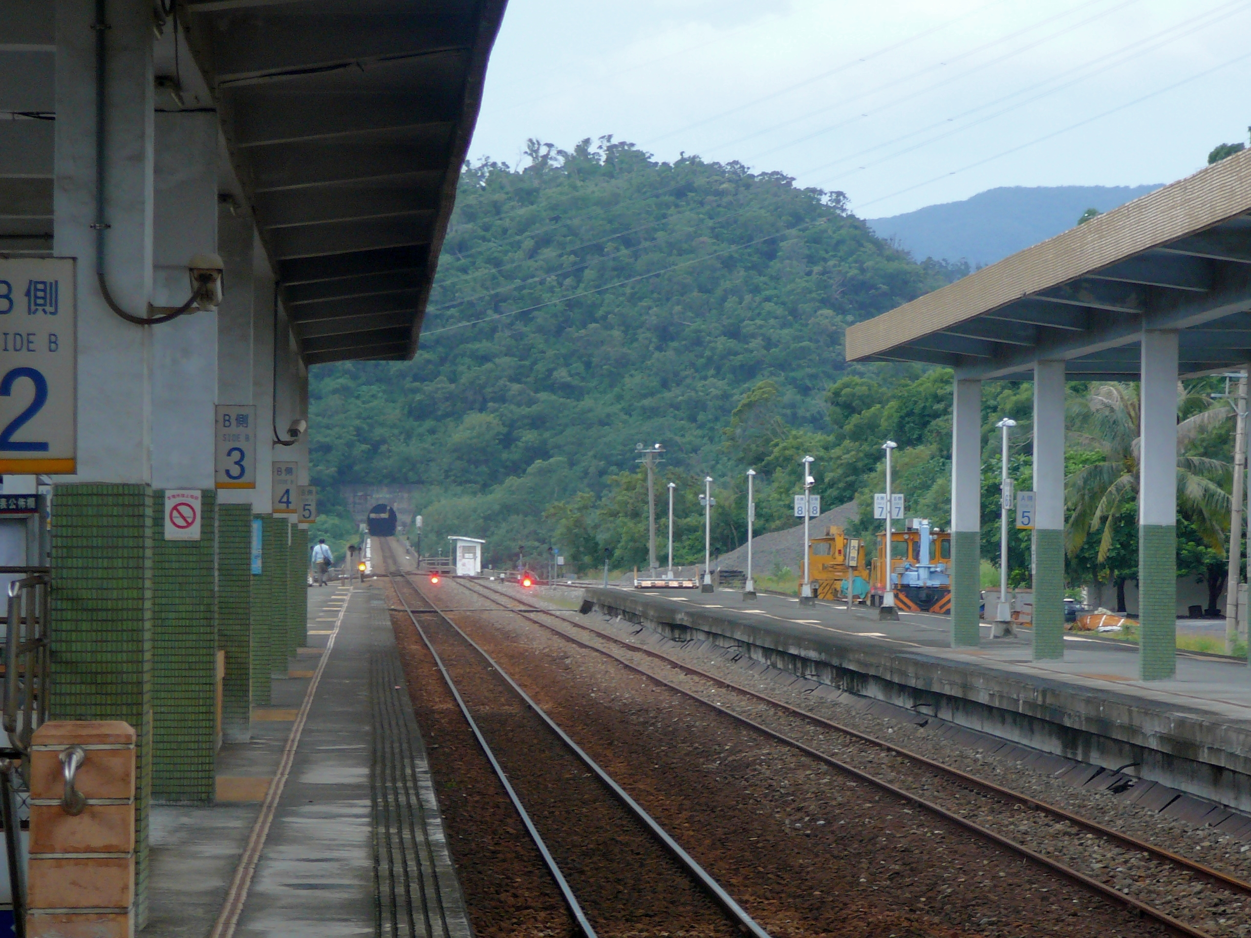 TRA Dawu Station Platform